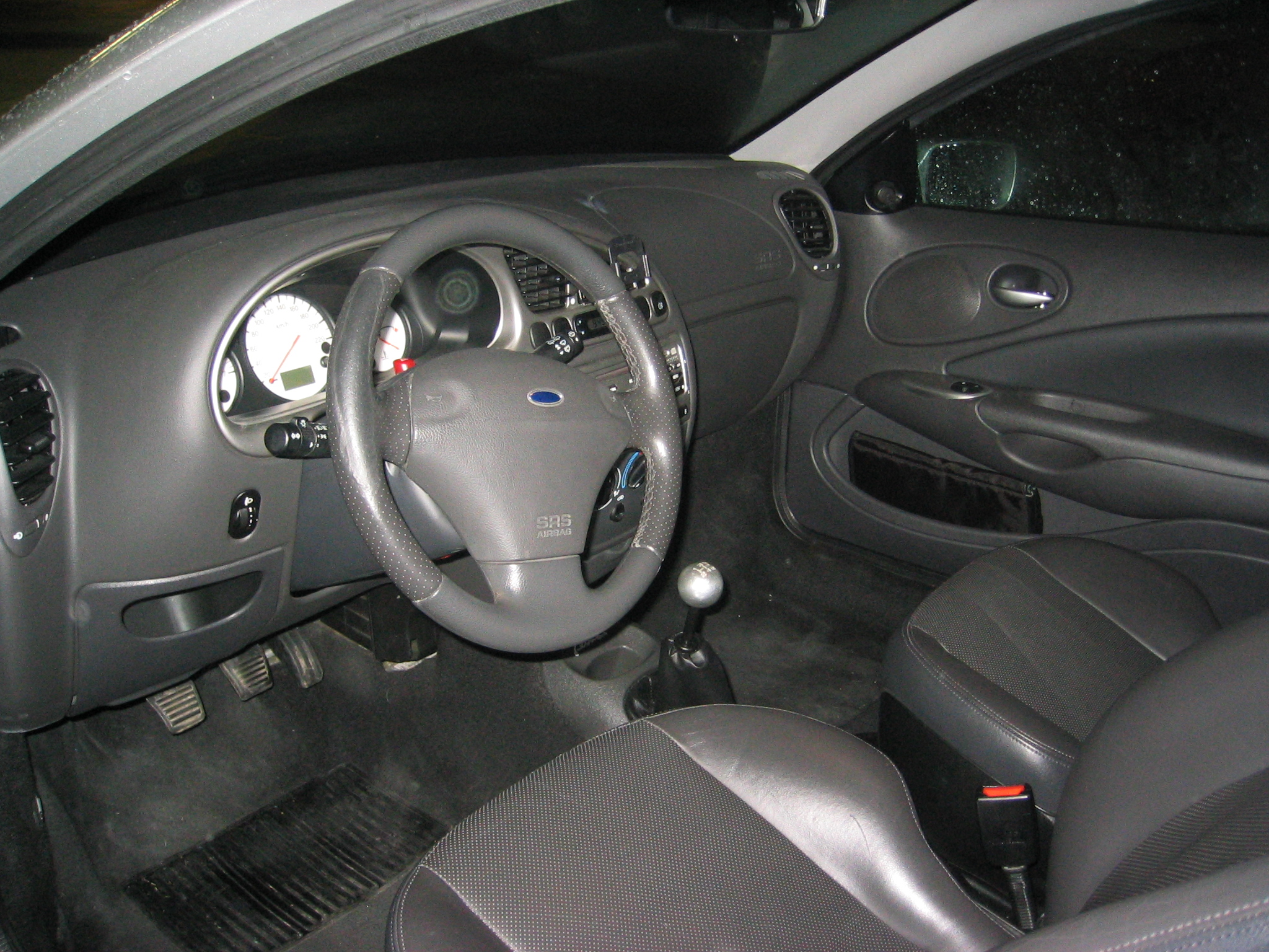 Ford Puma